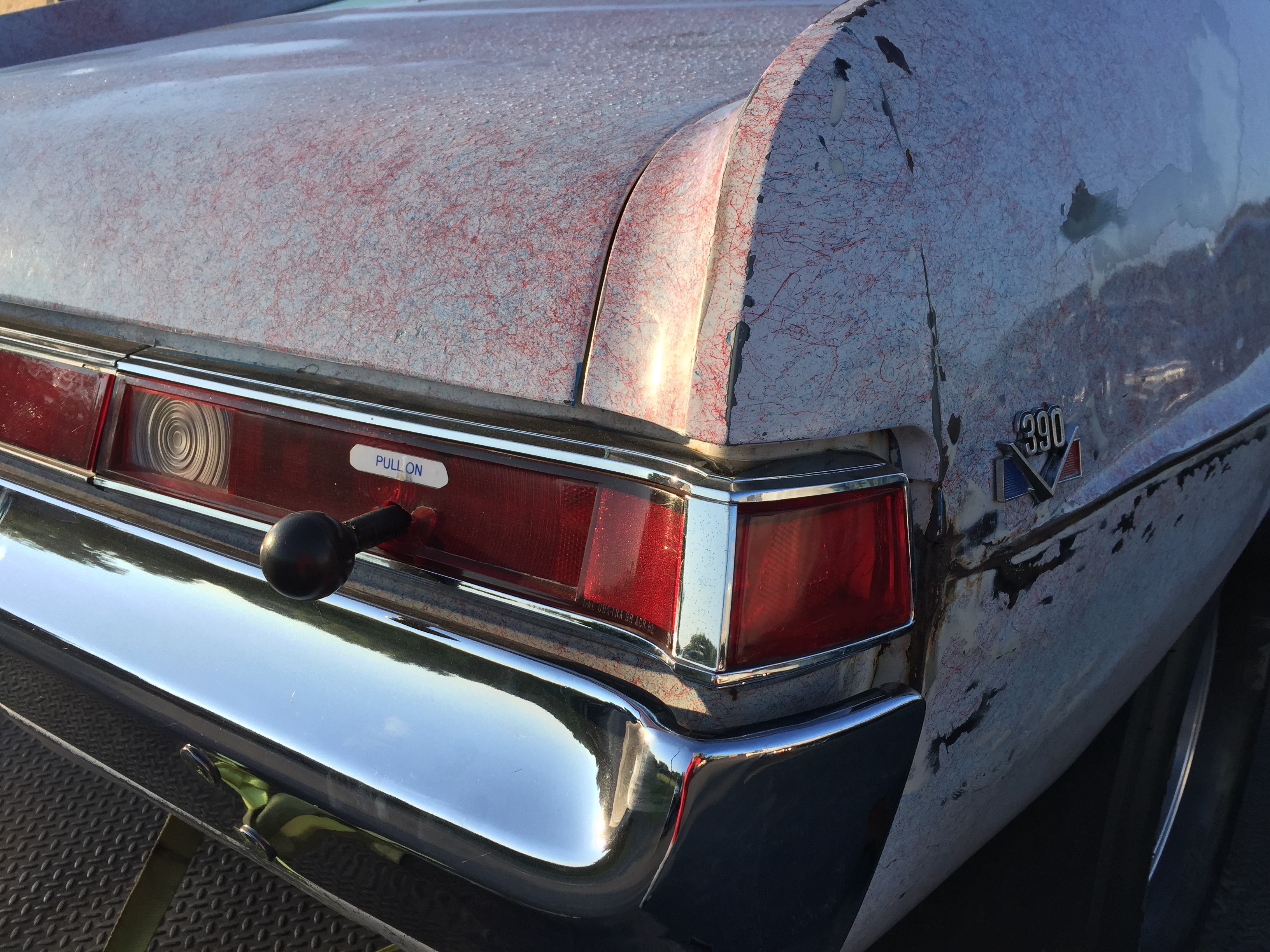 1969 AMC AMX Super Stock Hurst factory drag car that was campaigned as "Cotton Candy". This is vehicle #11 out of 52 that were special factory prepared by AMC (American Motors Corporation) and Hurst Performance for drag racing. The two-seat, GT-type sports coupe has minimum comfort features such as no heater nor windshield wipers, but is powered by AMC's 390 CID (6.4 L) V8 engine with twin Holley carburetors and 12.3:1 compression-ratio that was factory rated at 340 hp, but the National Hot Rod Association (NHRA) ultimately rated it at 420 horsepower. Picture taken during the American Motors Owners Association (AMO) annual convention that was held July 2015 near Cleveland, Ohio.